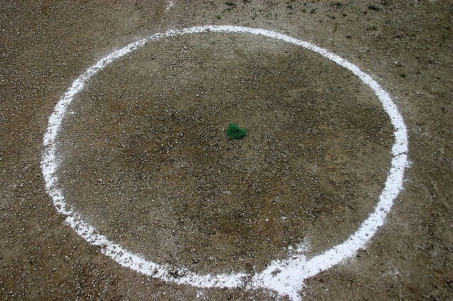 Playing circle.